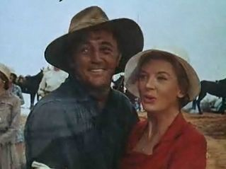 Screenshot of Robert Mitchum and Deborah Kerr from the trailer for the film The Sundowners